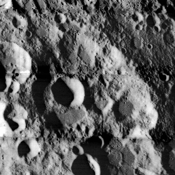 Oblique view of Lipskiy, on the far side of the moon, facing north.